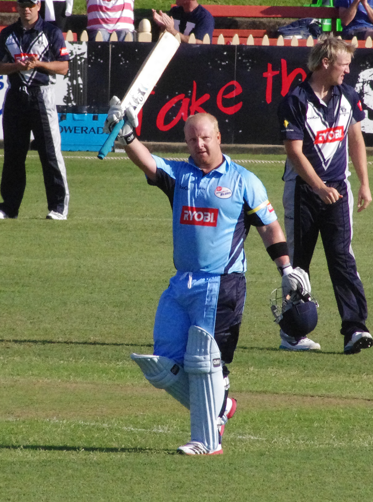 Daniel Smith acknowledging the crowd after making a century against Victoria.